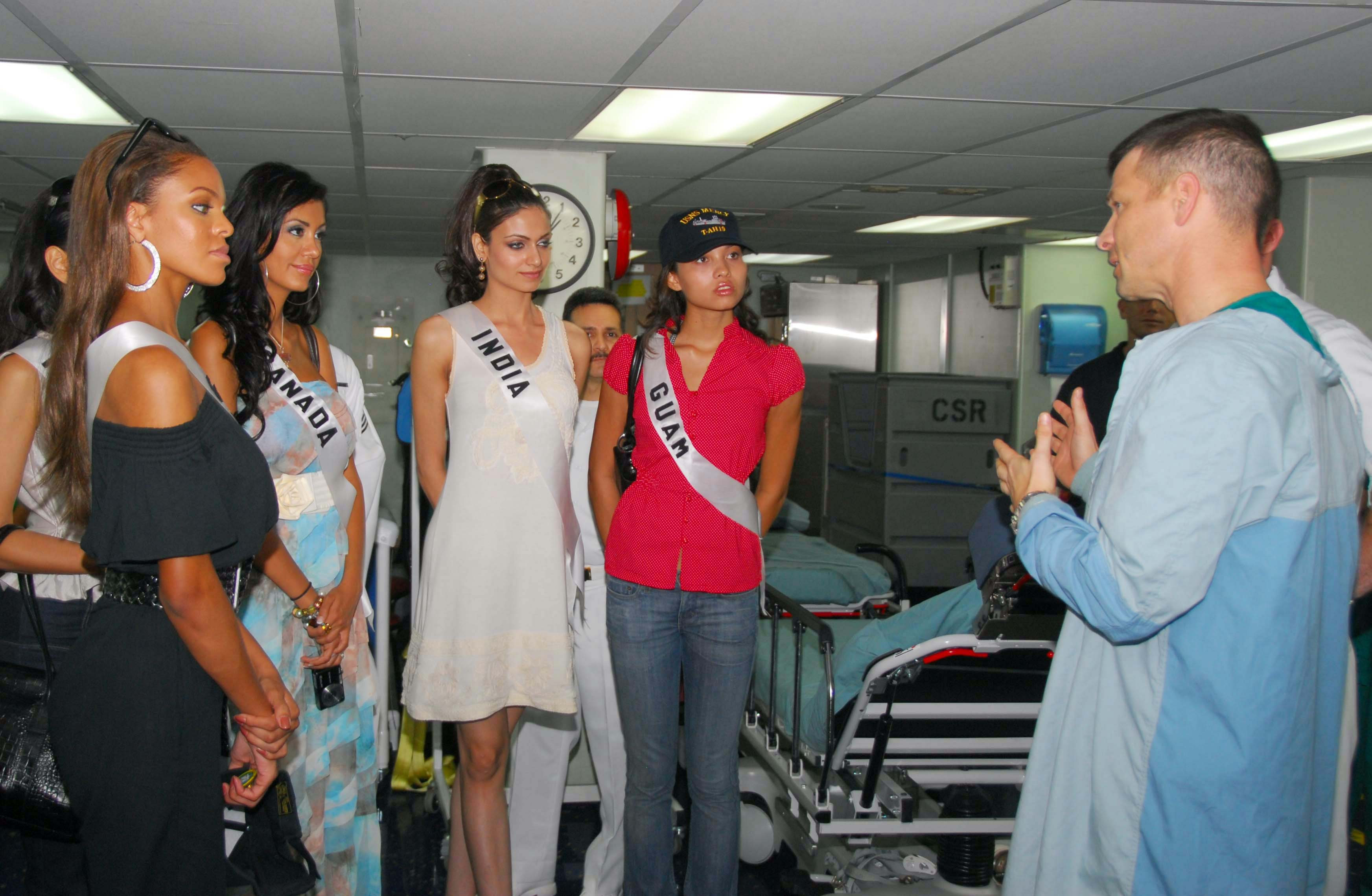 Cmdr. Kenneth Kubis, director of Surgical Services, explains the functions of the operating room to Miss Universe contestants during their tour of the Military Sealift Command hospital ship USNS Mercy (T-AH 19). Mercy is anchored off the coast of Nha Trang, conducting its second mission site in support of Pacific Partnership 2008.